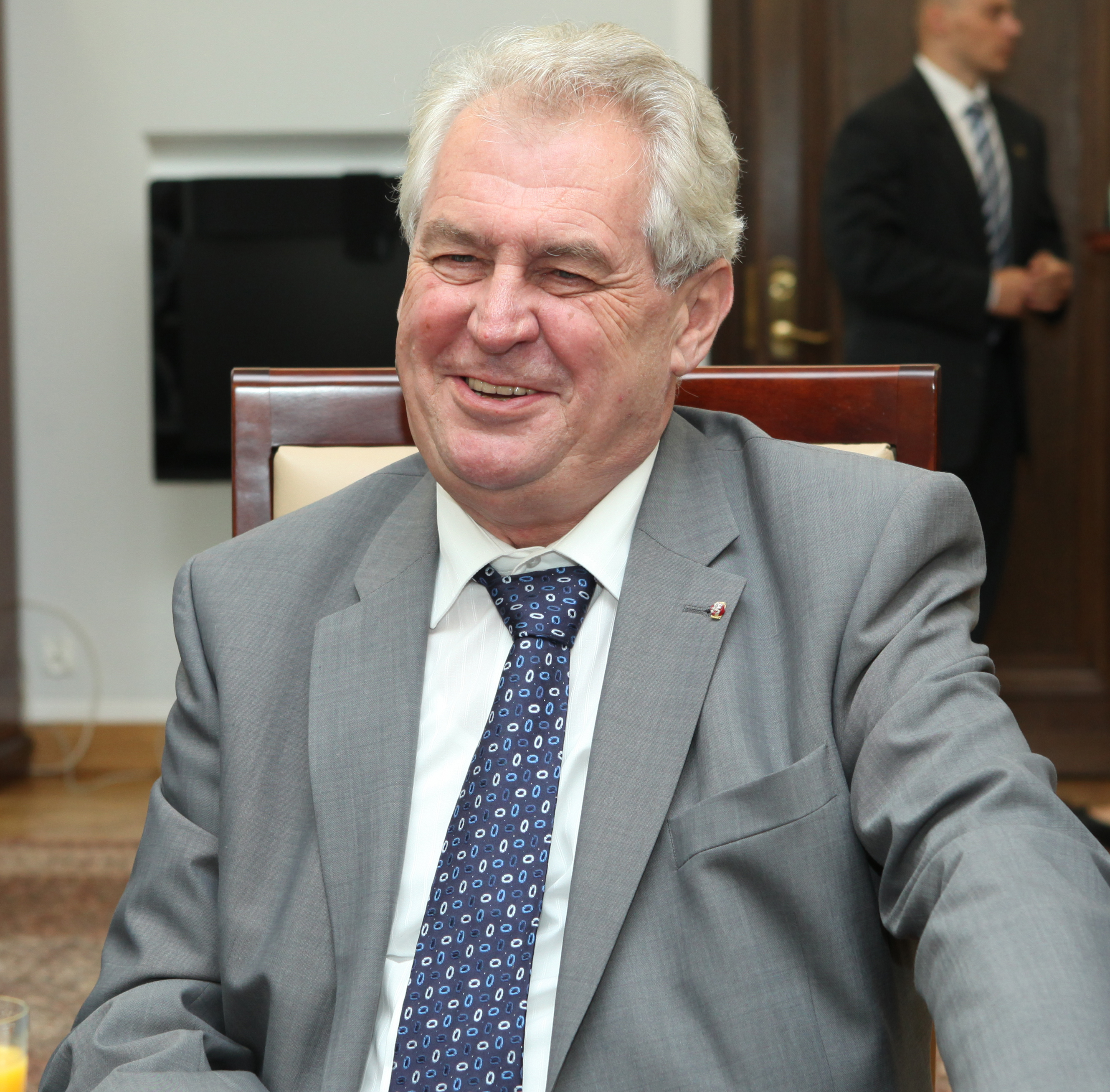 President of the Czech Republic Miloš Zeman in the Polish Senate